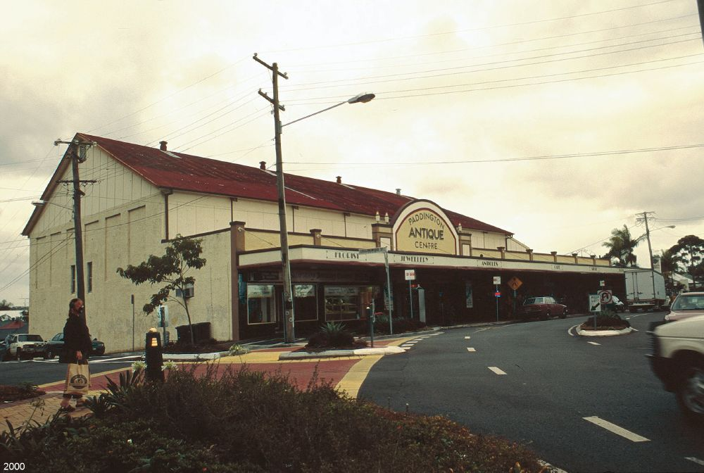 Paddington Antiques Centre (2000)